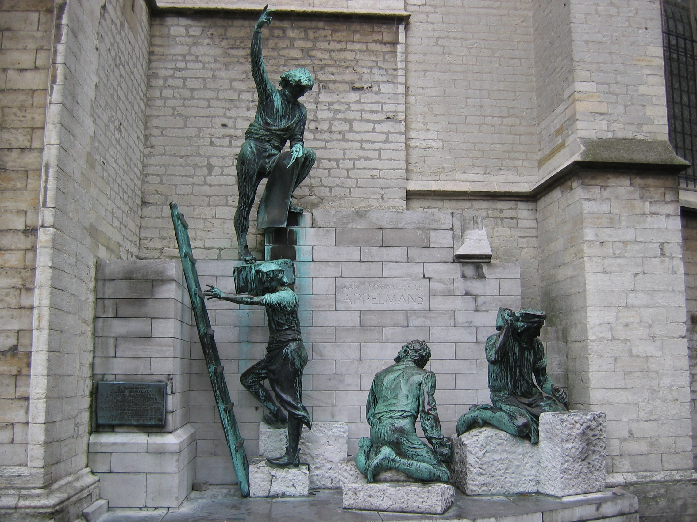 Monument to Jan Appelmans and Pieter Appelmans, builders of the Onze-Lieve-Vrouwekathedraal